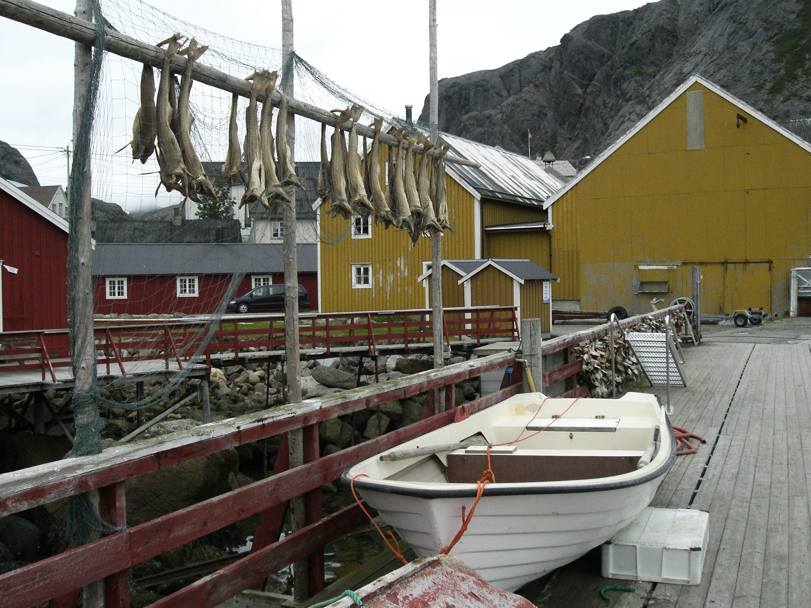 Village Nusfjord in Norway.